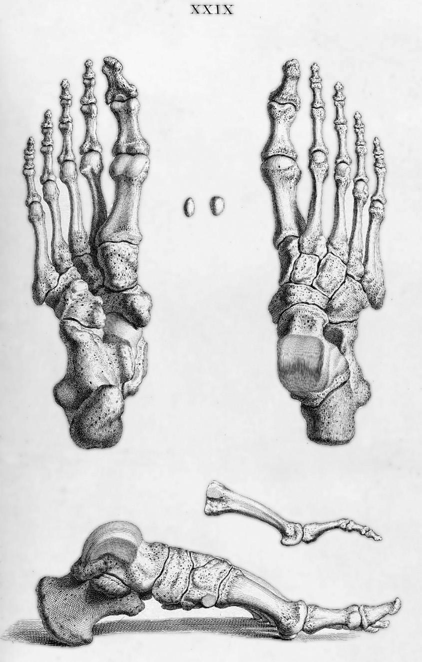 William Cheselden: Osteographia, or The anatomy of the bones. Uploader=Kuebi 17:45, 2 April 2007 (UTC)